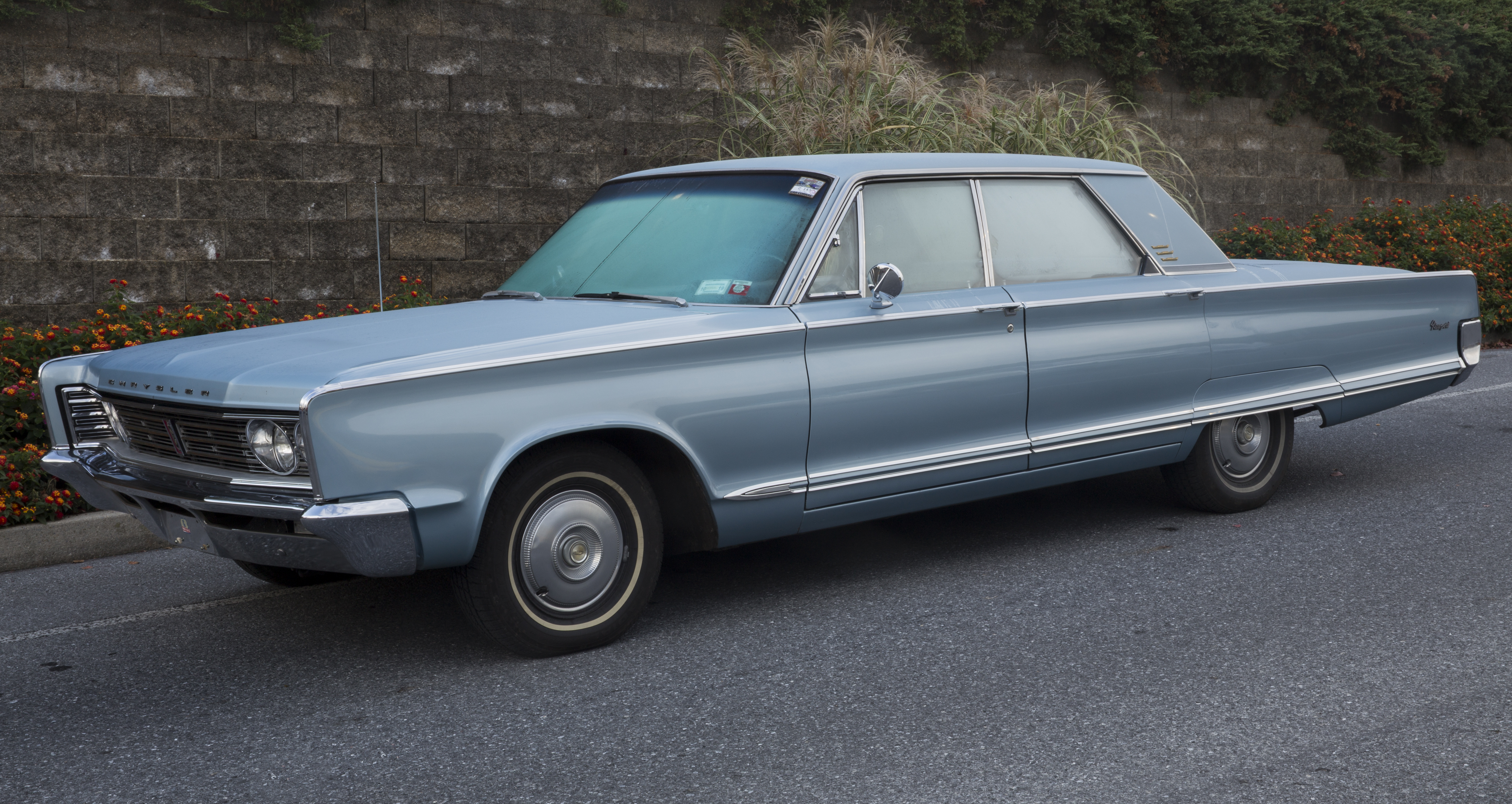 A 1966 Chrysler Newport 4-door Hardtop Sedan offered for sale at Hershey 2019. Two-barrel 270hp 383 V8 (VIN code "B", base engine for the Newport), built in Jefferson, MI.